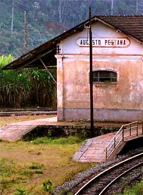 Augusto Pestana Railway Station, Liberdade, Minas Gerais, Brazil.